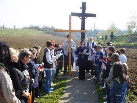 Commemoration honoring the victims of the Lovas tragedy from 18 October 1991. Behind the monument is the former mine field where around 50 Croatian villagers were forced to walk into on October 18 1991, during Croatian War of Independence.